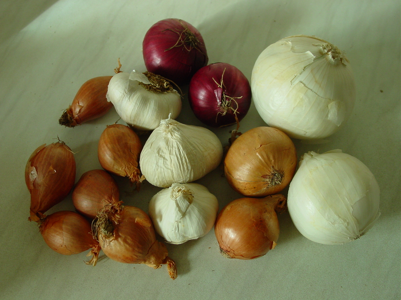 Onions